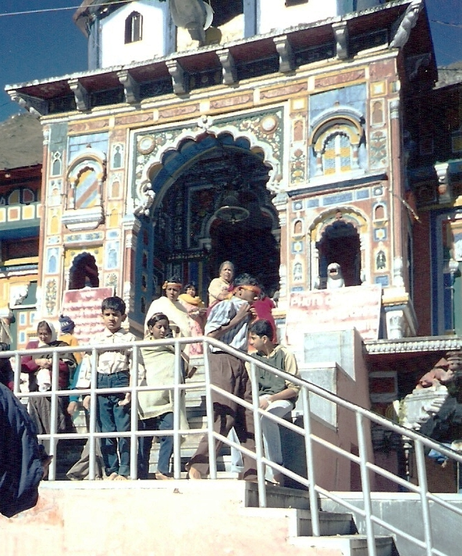 The entrance of Badrinath Temple in Indian Himalayas